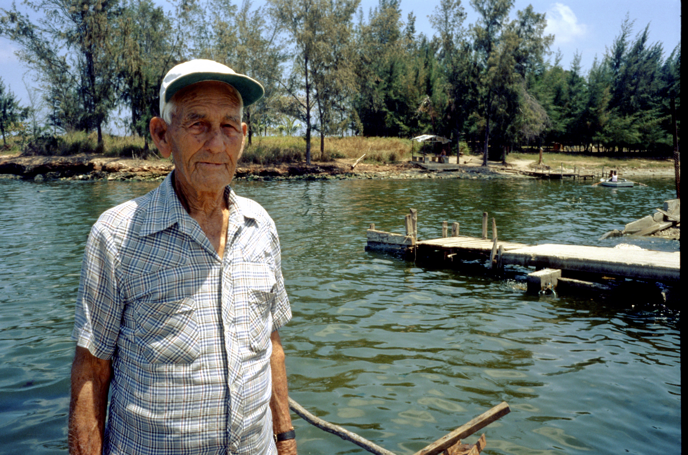 Gregorio Fuentes in Cojimar in 1993